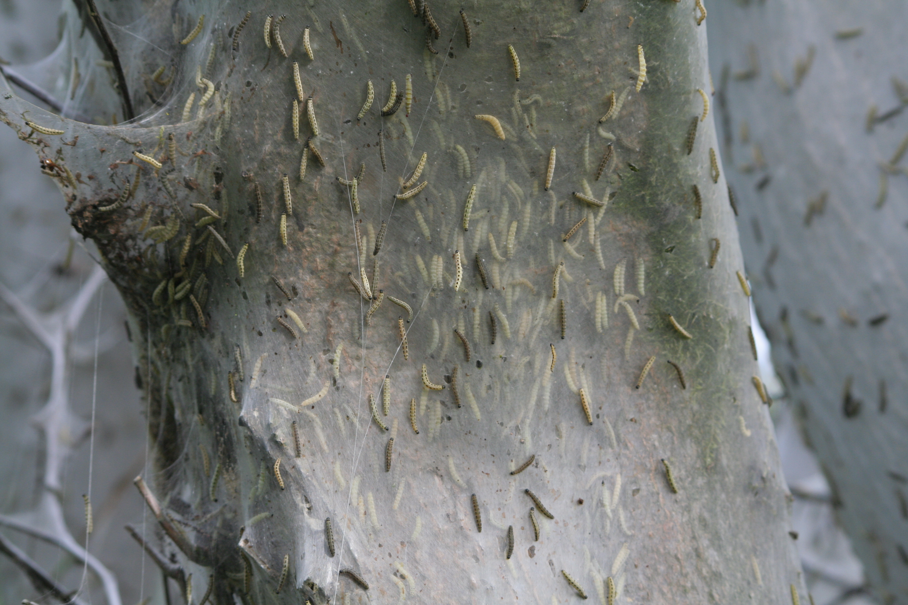 Caterpillars completely cover a medium sized tree with web in Bavarian farmland